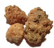 Author:en:User:Sjschen, Source: Self made, Somalian Myrrh (Commiphora myrrha)